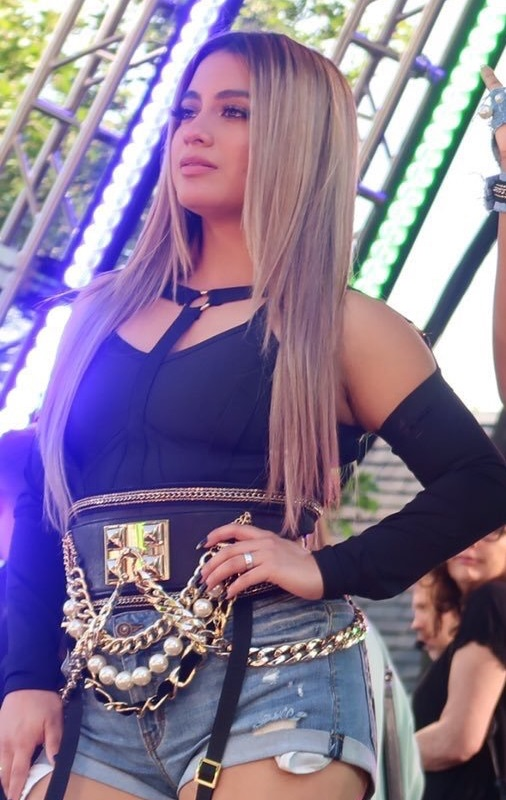 Ally Brooke on Good Morning America in NYC on June 2nd, 2017.